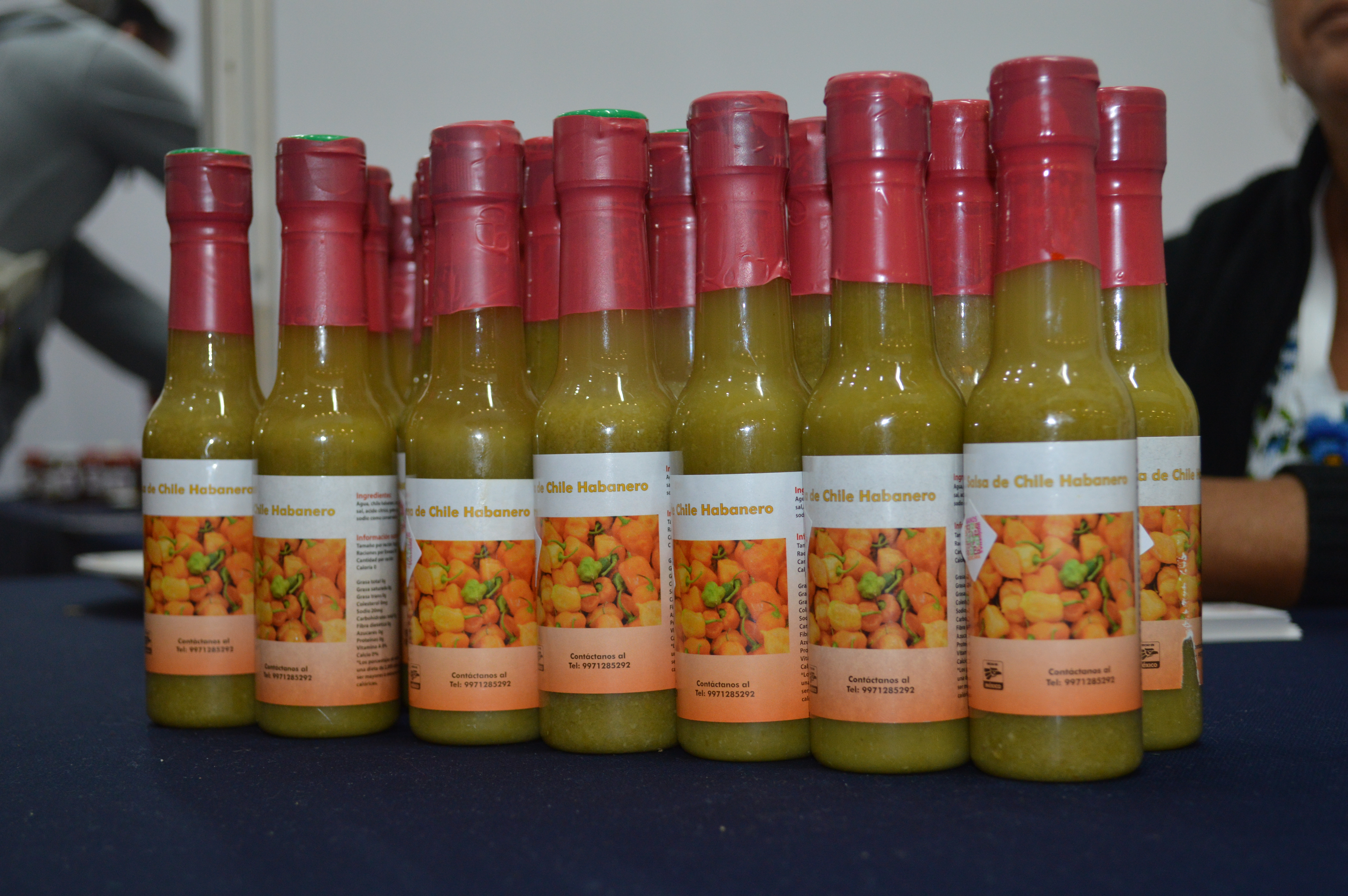 Habanero hot sauce from Flor de Lirio cooperative in Peto, Yucatán on display at the Expo de los Pueblos Indígenas in Mexico City